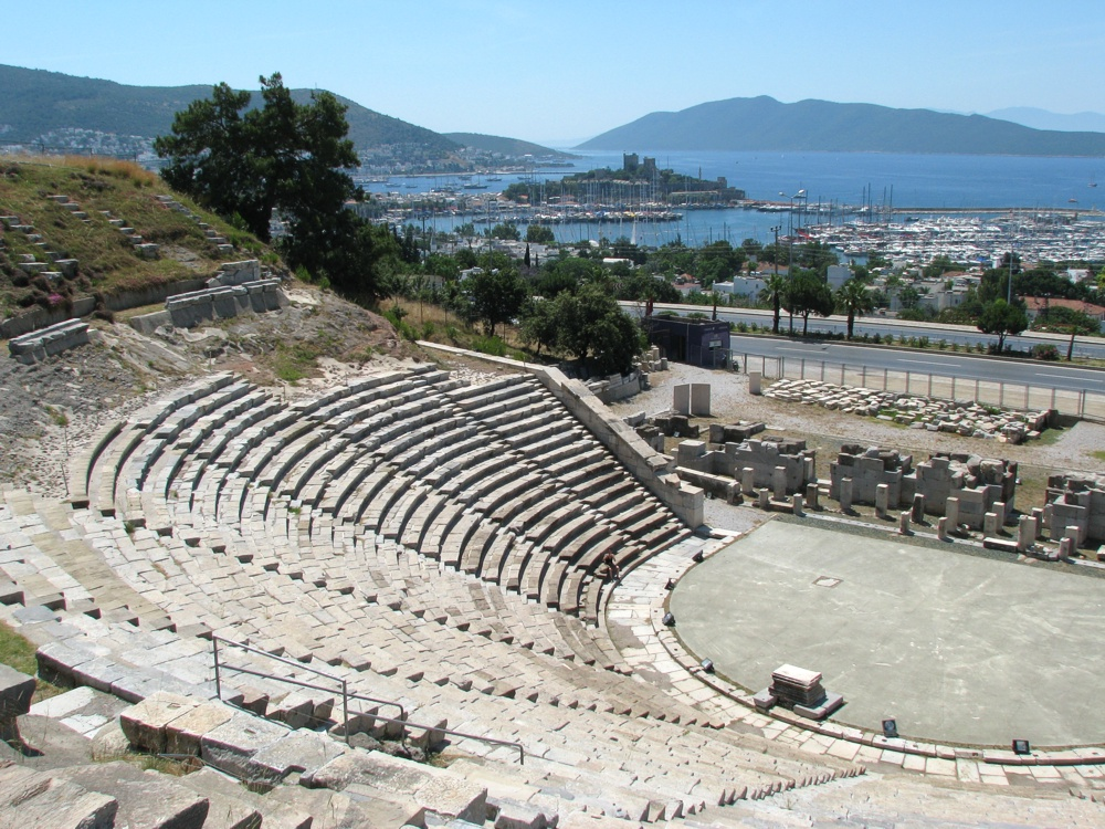 The theatre is a witness to the great past of Bodrum (Halicarnassus). Situated in the hillside over looking Bodrum this theatre whose capacity is around 13.000 was built during te Carian reign in the Hellenistic age (330 - 30 BC). The theatre consists of three different sections: a place for the audience, a place for an orchestra and the stage. It became an open-air museum after the excavations in 1973.